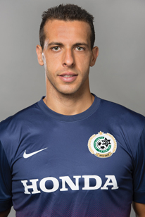 Bojan Šaranov בויאן שארנוב